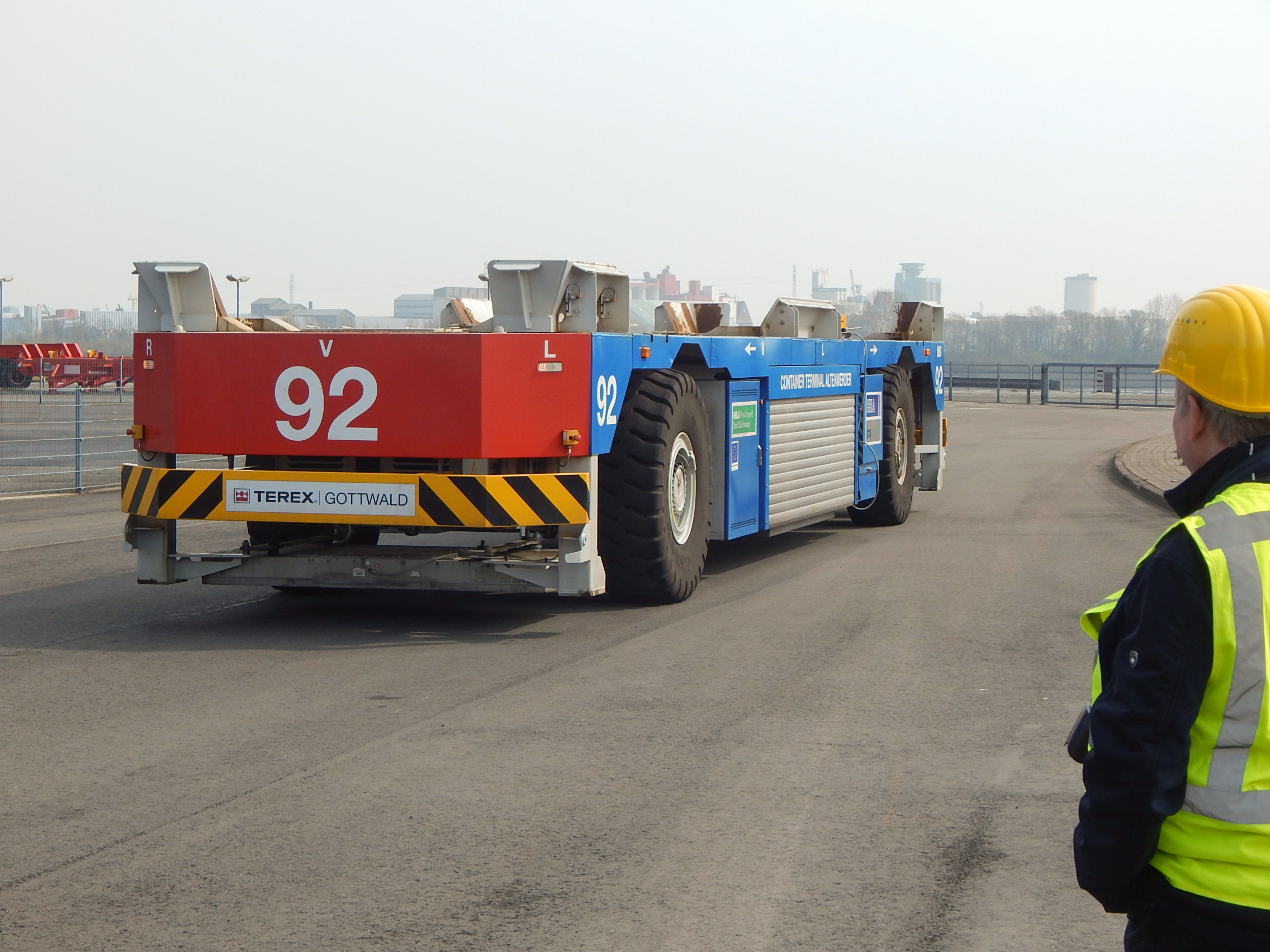 HHLA CTA Presseinfo Automated Guided Vehicle